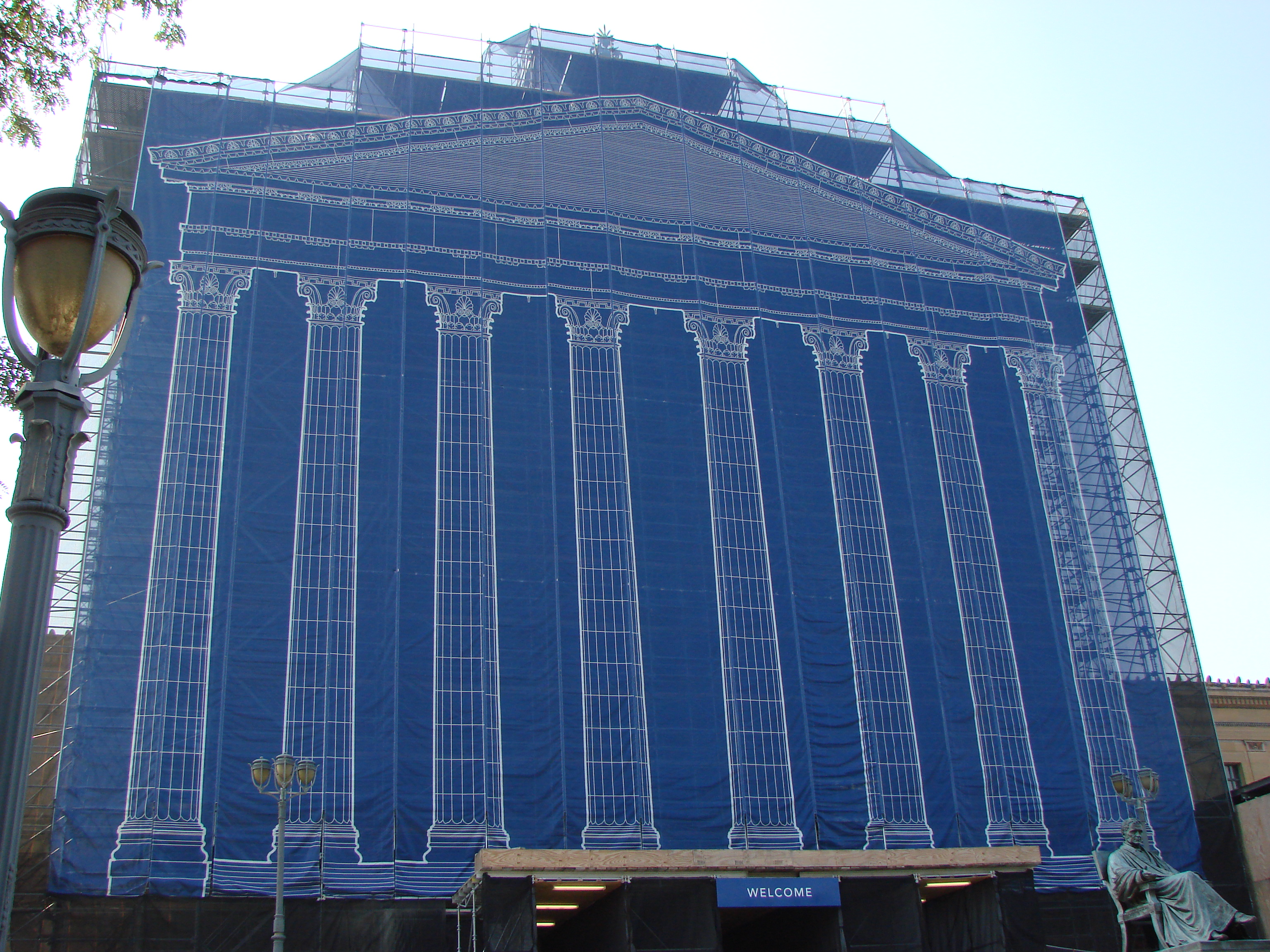 The rear entrance of the Philadelphia Museum of Art under construction during Summer 2008.